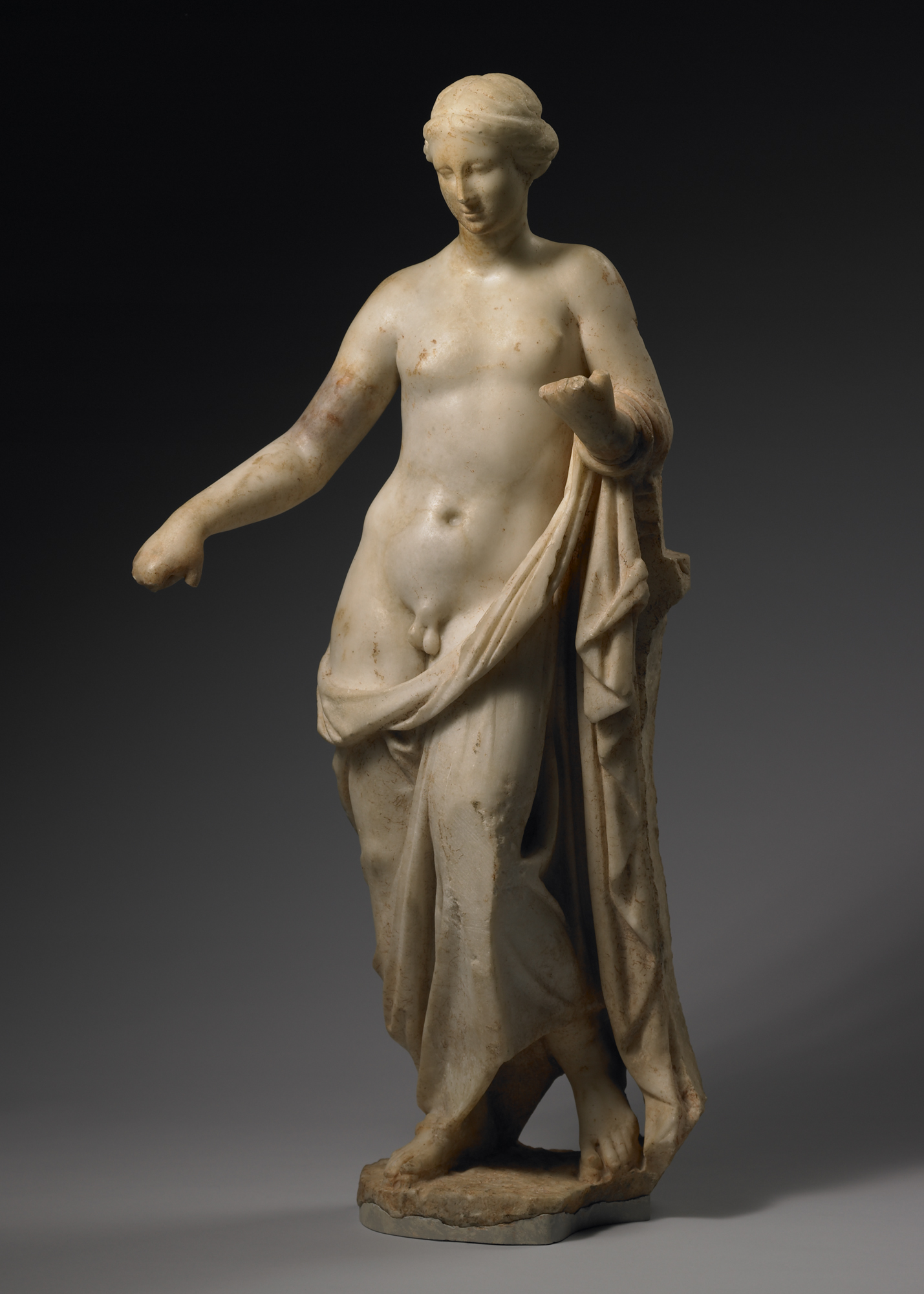 Greek, Hellenistic Statuette of Hermaphrodite, 2nd century B.C. White marble h. 149.1 cm., w. 27.5 cm., d. 13.2 cm. (58 11/16 x 10 13/16 x 5 3/16 in.) Museum purchase, Fowler McCormick, Class of 1922, Fund Place made: possibly from Rhodes 2009-81 In this statuette, said to have been found on Rhodes, the god is naked except for a mantle that falls below the male genitals, which stand in contrast to the girlish face and the feminine modeling of the body. Leaning against a pillar, she apparently once held a wine jug in her right hand and an offering dish in her left. The figure's lithe form and sweet sensuality are characteristic of the so-called Rococo phase of the Late Hellenistic period. Another larger example of this sculpture type was found at Pergamon, in western Turkey, a cosmopolitan center whose Attalid rulers fostered the cults of a variety of gods. These sculptures were not salacious curiosities but objects of sincere devotion, representing the dichotomy of human nature and the yearning for unity in the face of ambivalent desire.